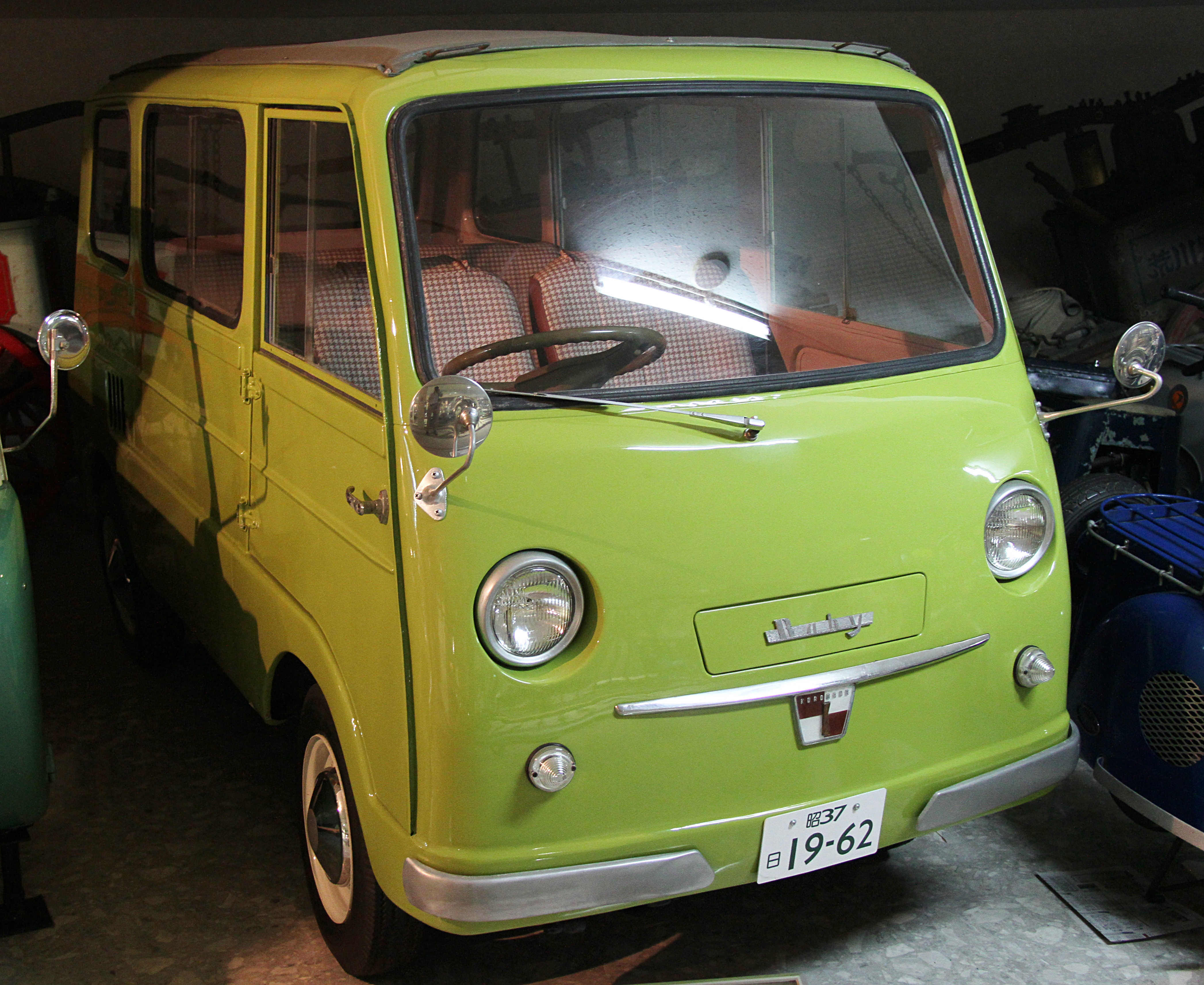 Kurogane Baby photographed at Motorcar Museum of Japan